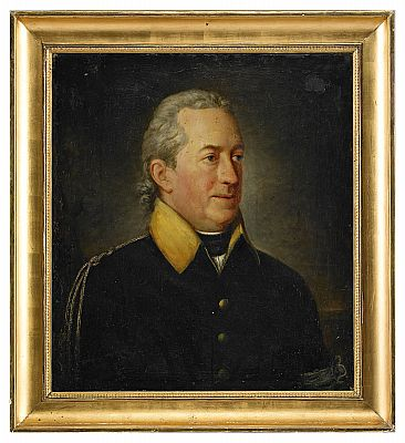 Portrait of Major General count Georg Adlersparre (1760-1835).